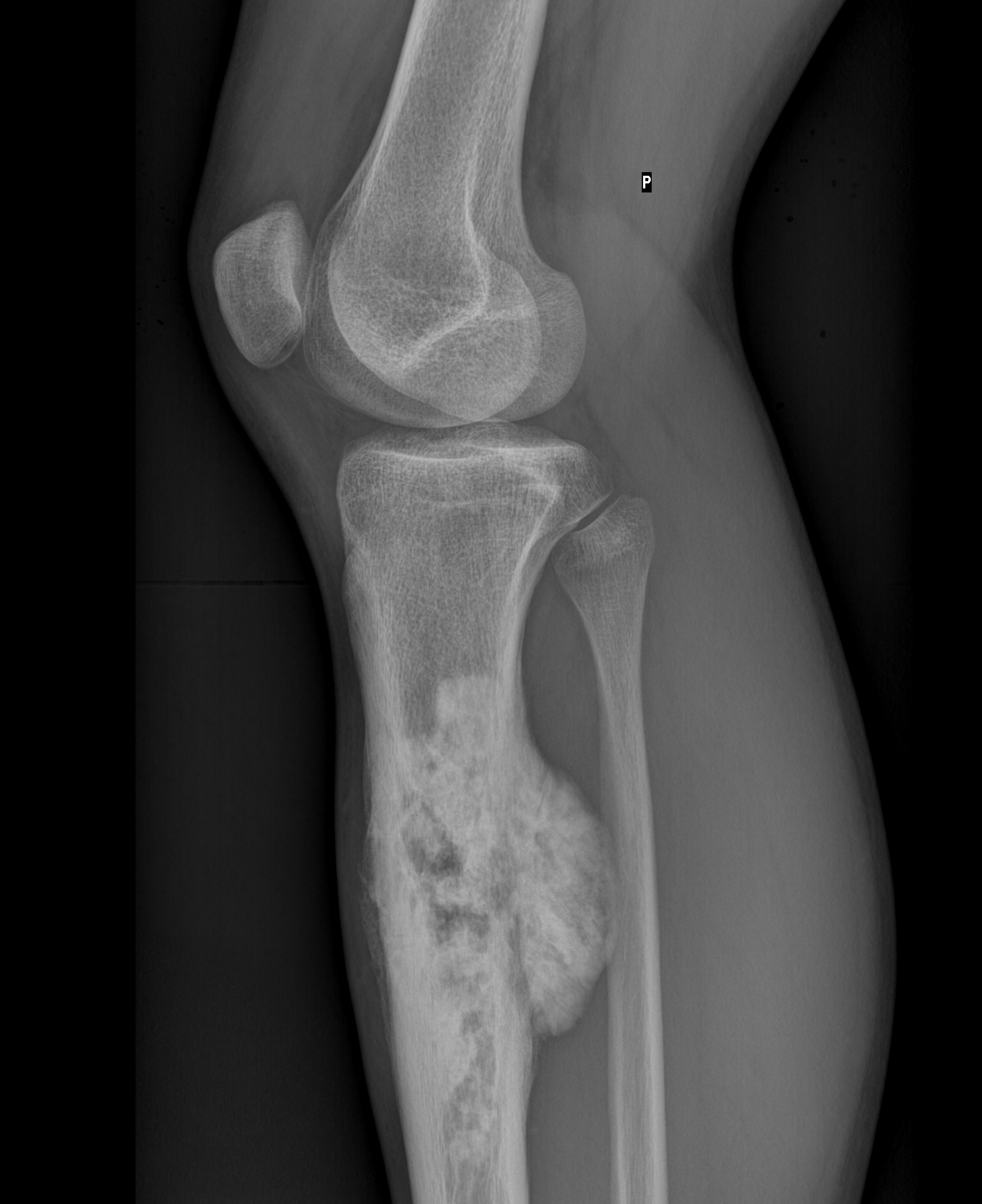 Osteosarkóm píštaly